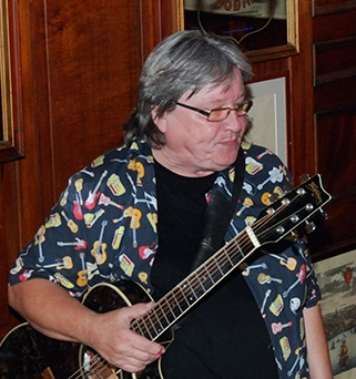 Lennart Grahn, på Tennstopet 16 augusti 2012.